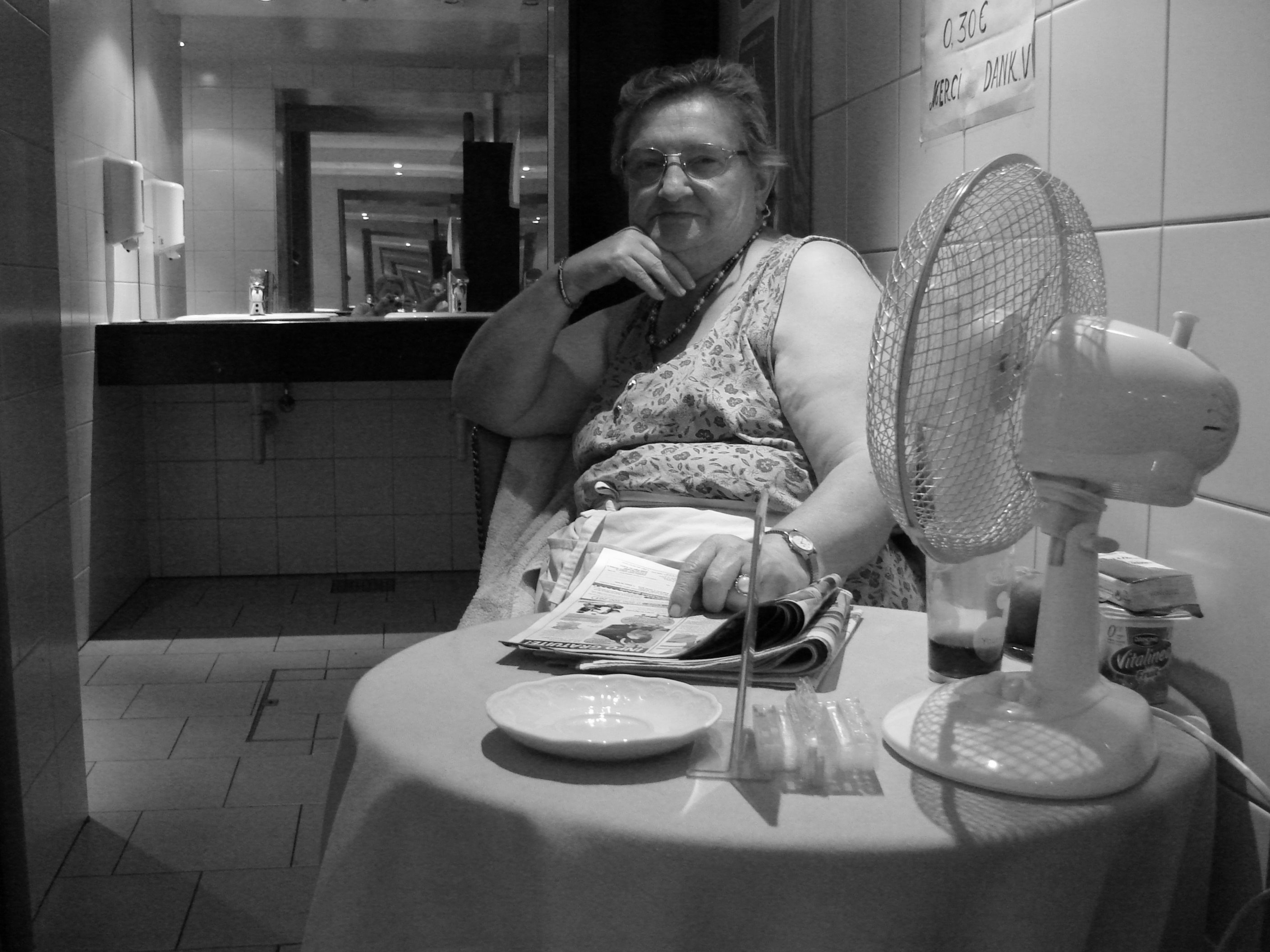 A toilet lady (Brussels, Belgium). Orginal text: I met this toilet lady in the bloody hot basement of a café...thought this would make a nice portrait...hidden in her own world, far from the light of day...